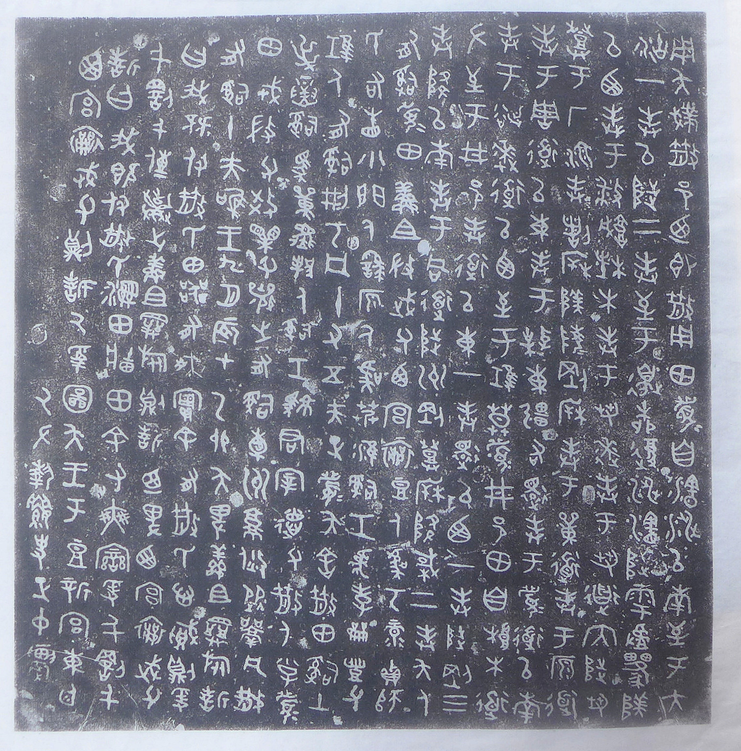 Rubbing of the inscription of the Western Chou Bronze :San si Pan. This rubbing has colophons by Wu Yun(1811-1883) and Wu Dacheng(1835～1902)